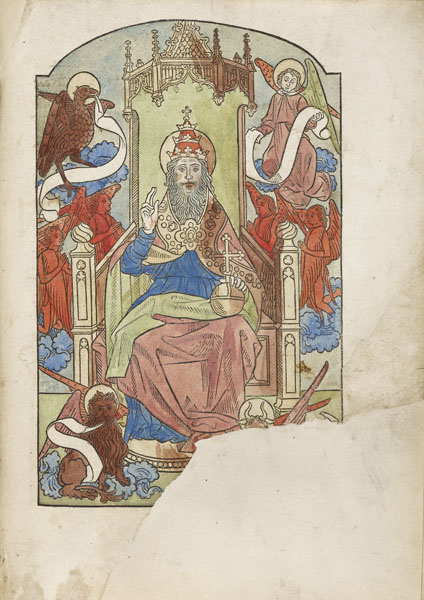 A page from the Lyme Caxton Missal showing a coloured woodblock illustration depicting God the Father enthroned